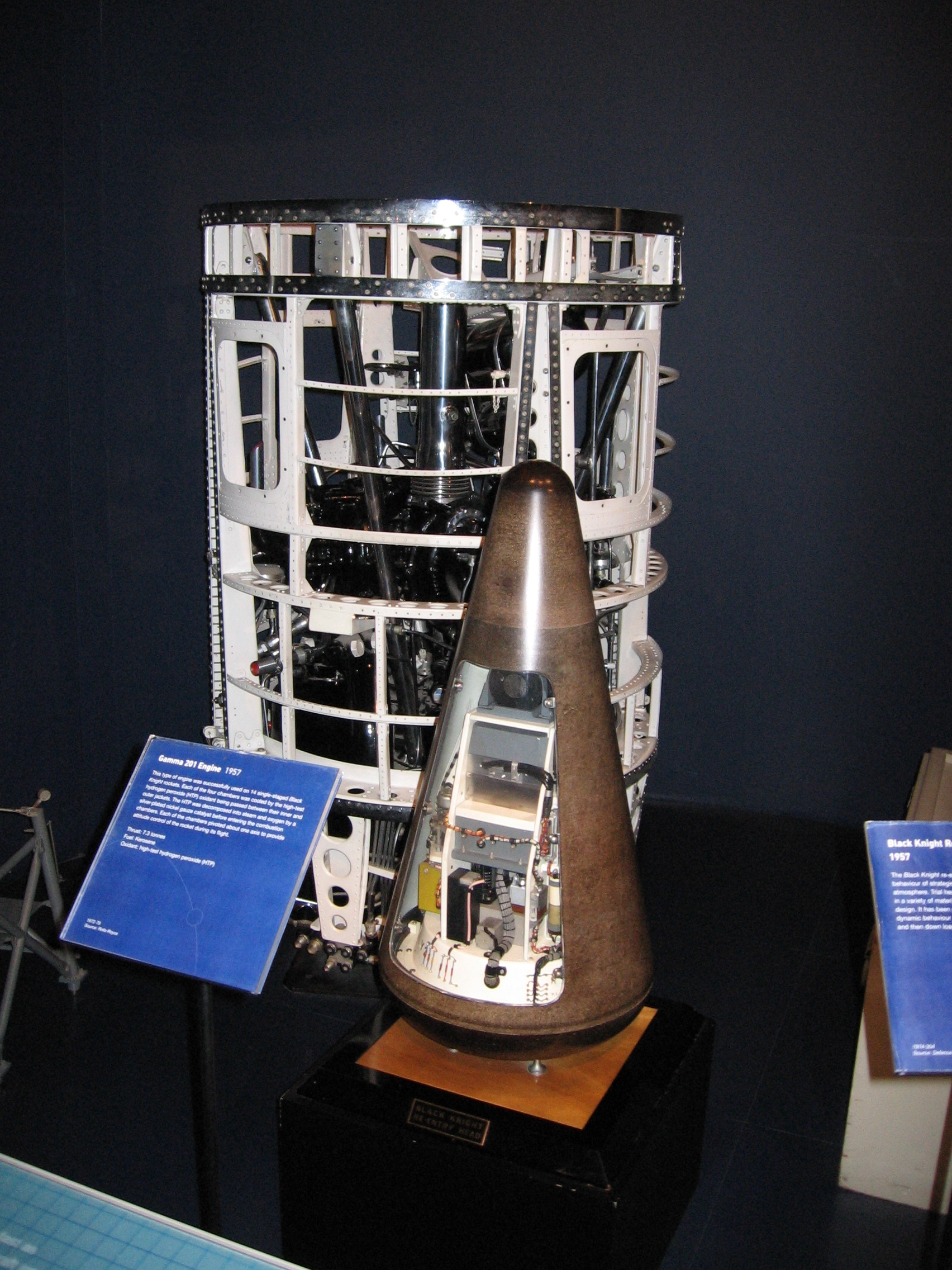 Gamma 201 engine and re-entry head of the Black Knight rocket at the Science Museum, London.